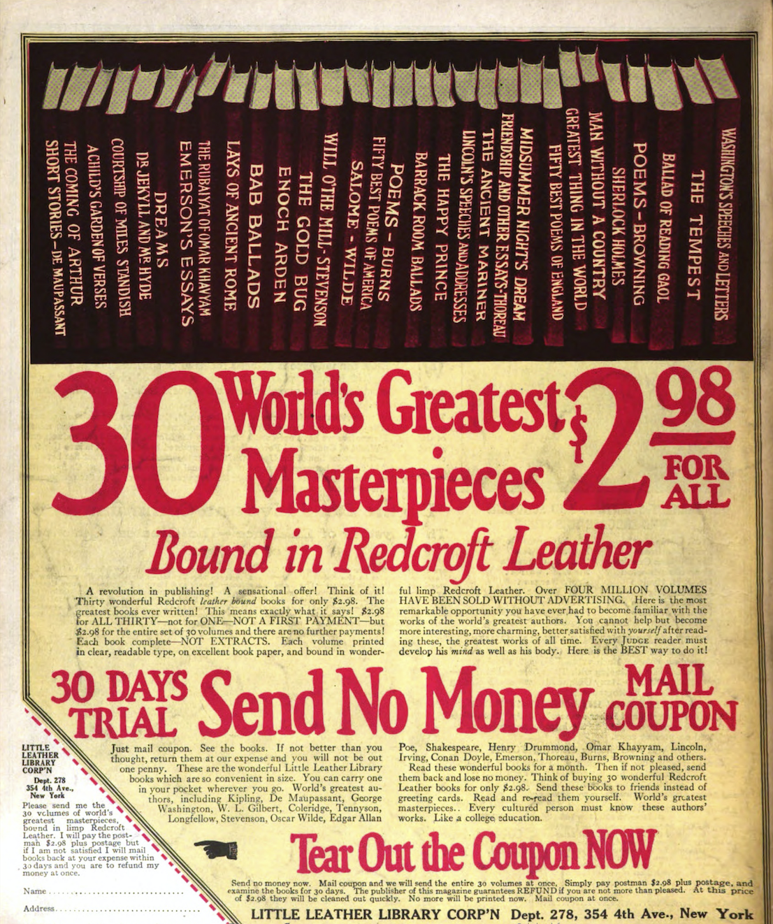 Ad for the Little Leather Library Corporation from Judge magazine, 26 Feb 1921. Cropped to remove most of the watermark